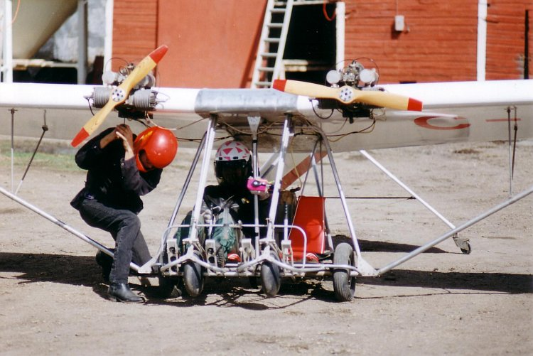 I took this photo of a Lazair II being pull-started in May 2000.